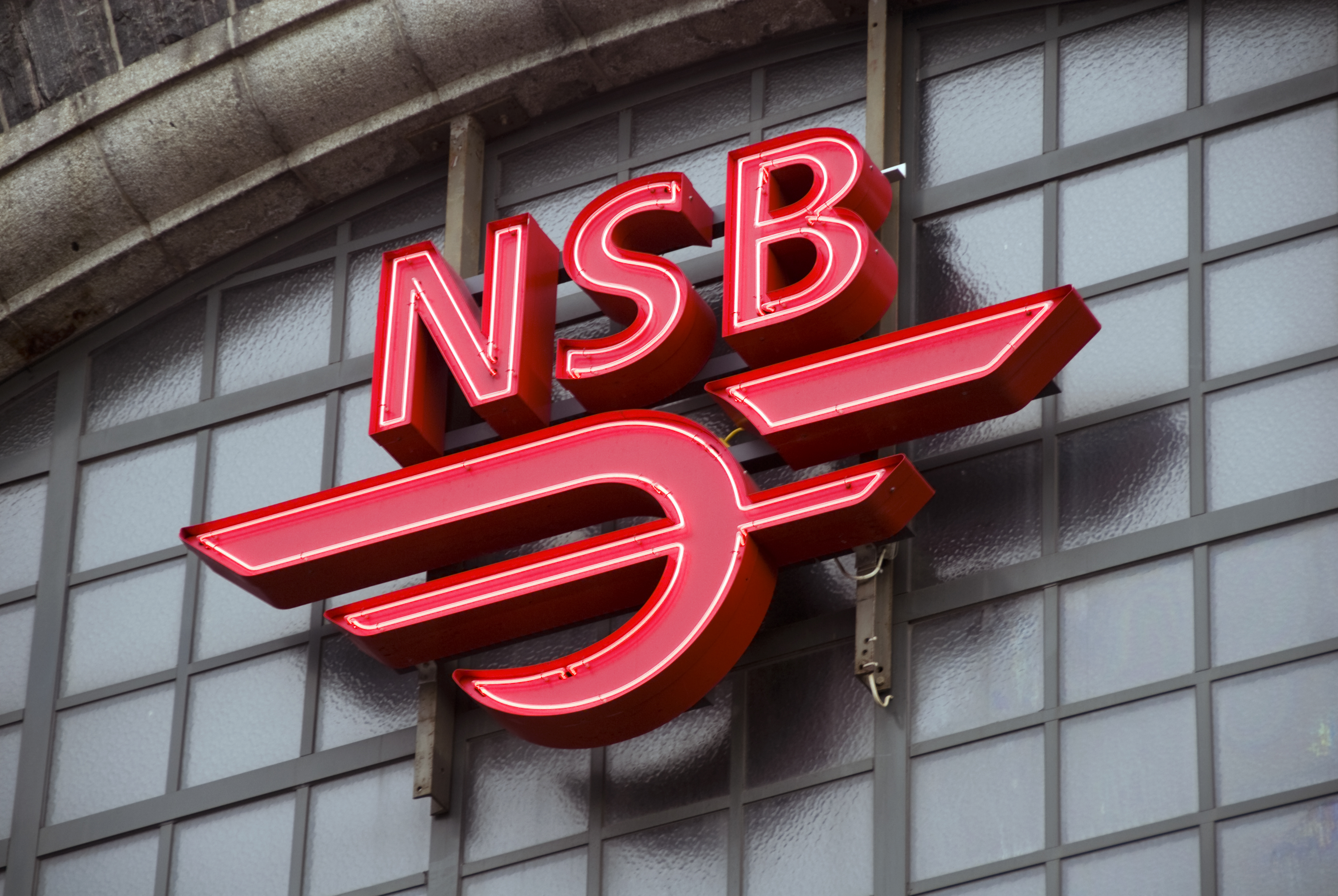 NSB's logo at Bergen Station